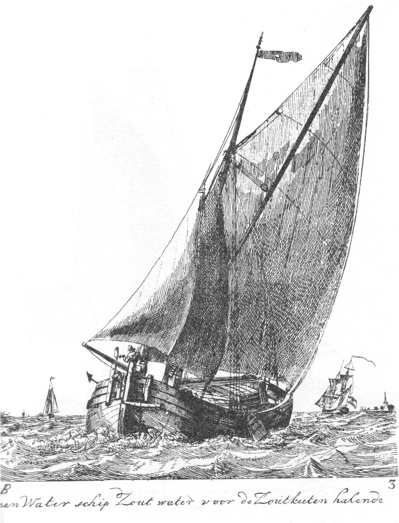 18th century water vessel